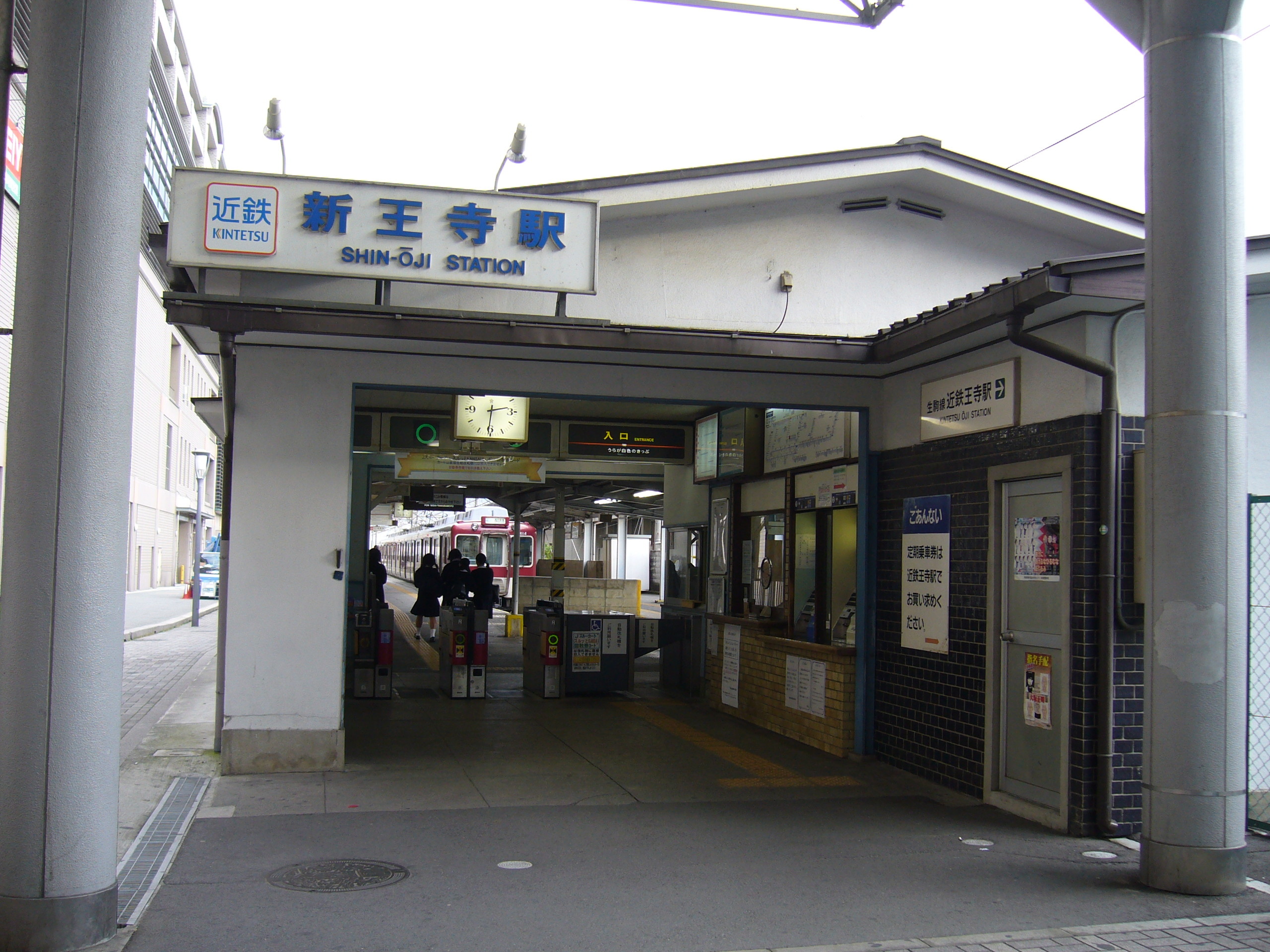 This is a picture of Shin-Ōji station,Kintetsu Tawaramoto line.